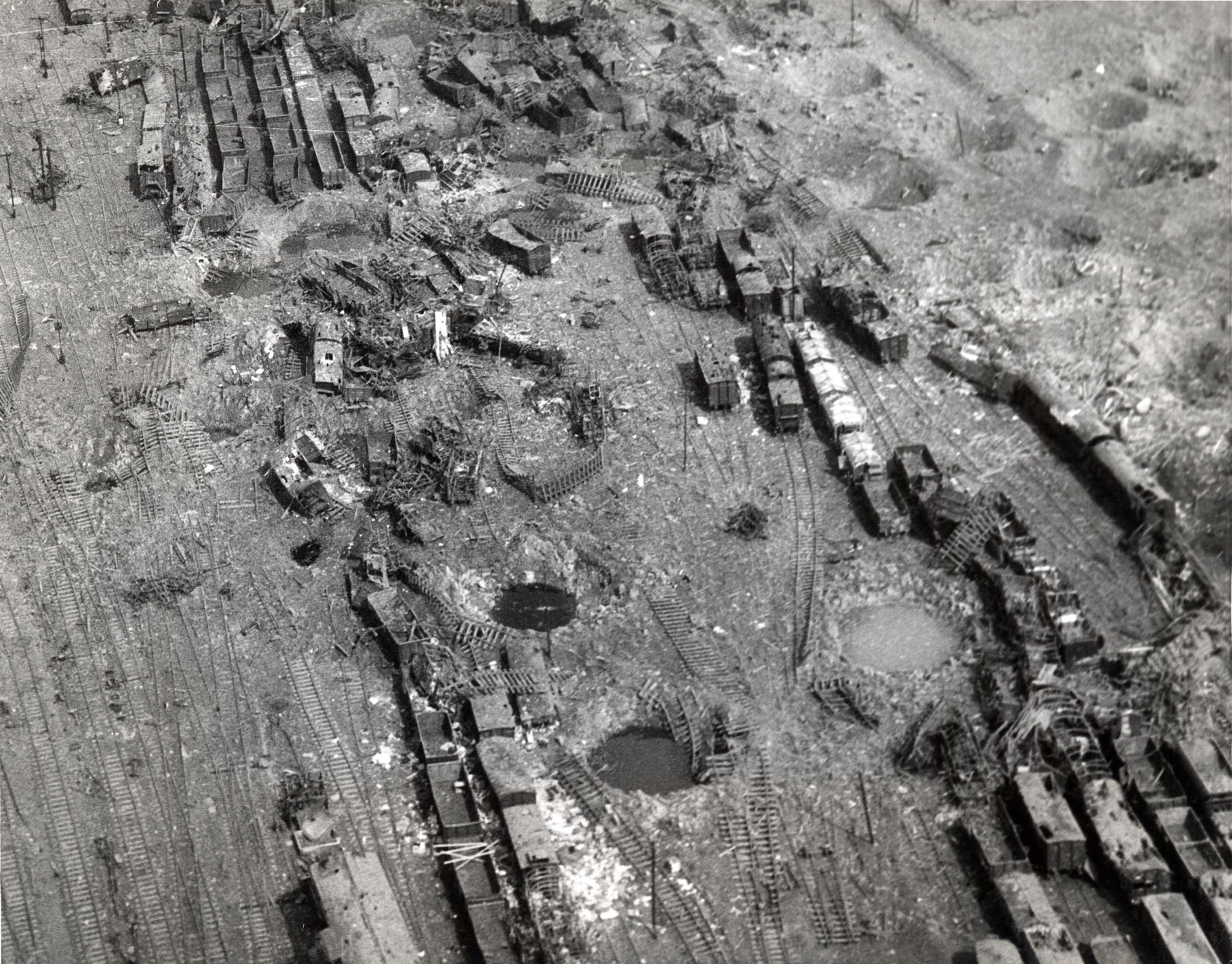 Original captions: "Battle of the Bulge: Railroad yard near Limburg, Germany, struck by 9th Air Force light and medium bombers on Dec. 23, 1944, the first day of good weather during the Battle of the Bulge. Unfortunately, since the rail cars were not marked per the Geneva Convention, Allied POWs in transit sometimes lost their lives in rail attacks. (U.S. Air Force photo)" Note that the additional info gives the following information: "Railyard near Limburg was rendered unserviceable as part of the tactical air plan to isolate enemy troops from their sources of supply and reinforcement. (2 May 1945)"